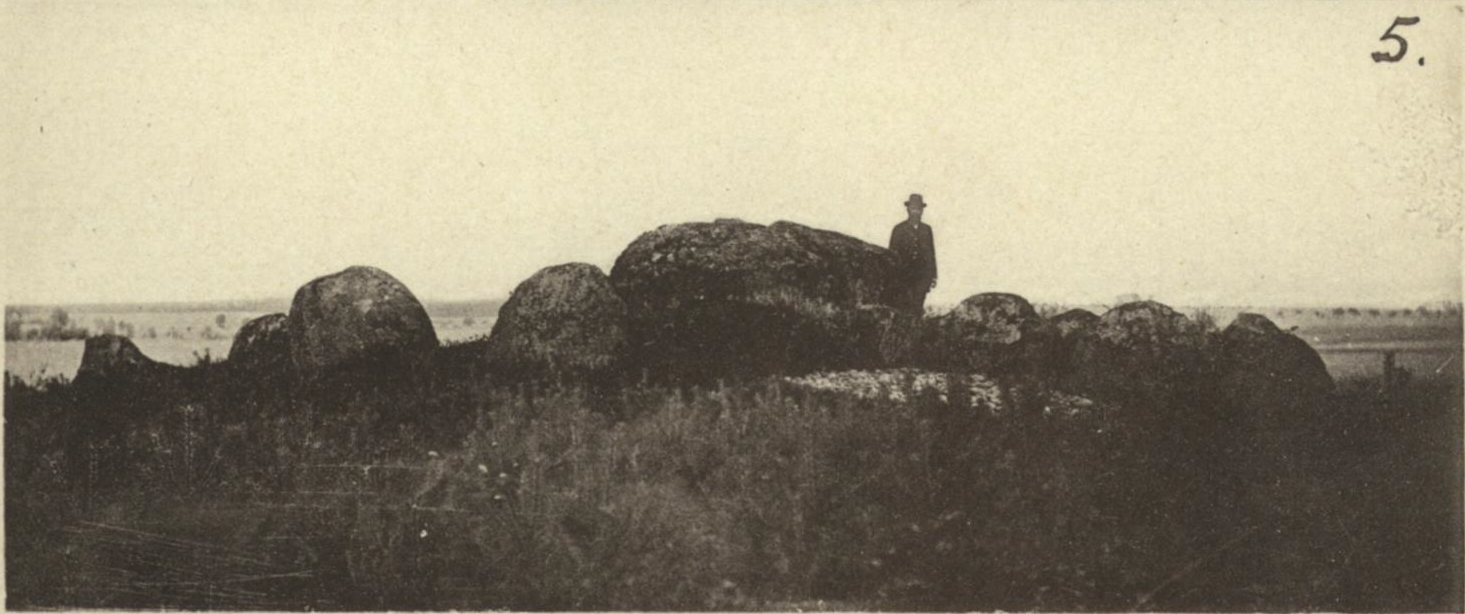 Megalithic tomb Bülitz